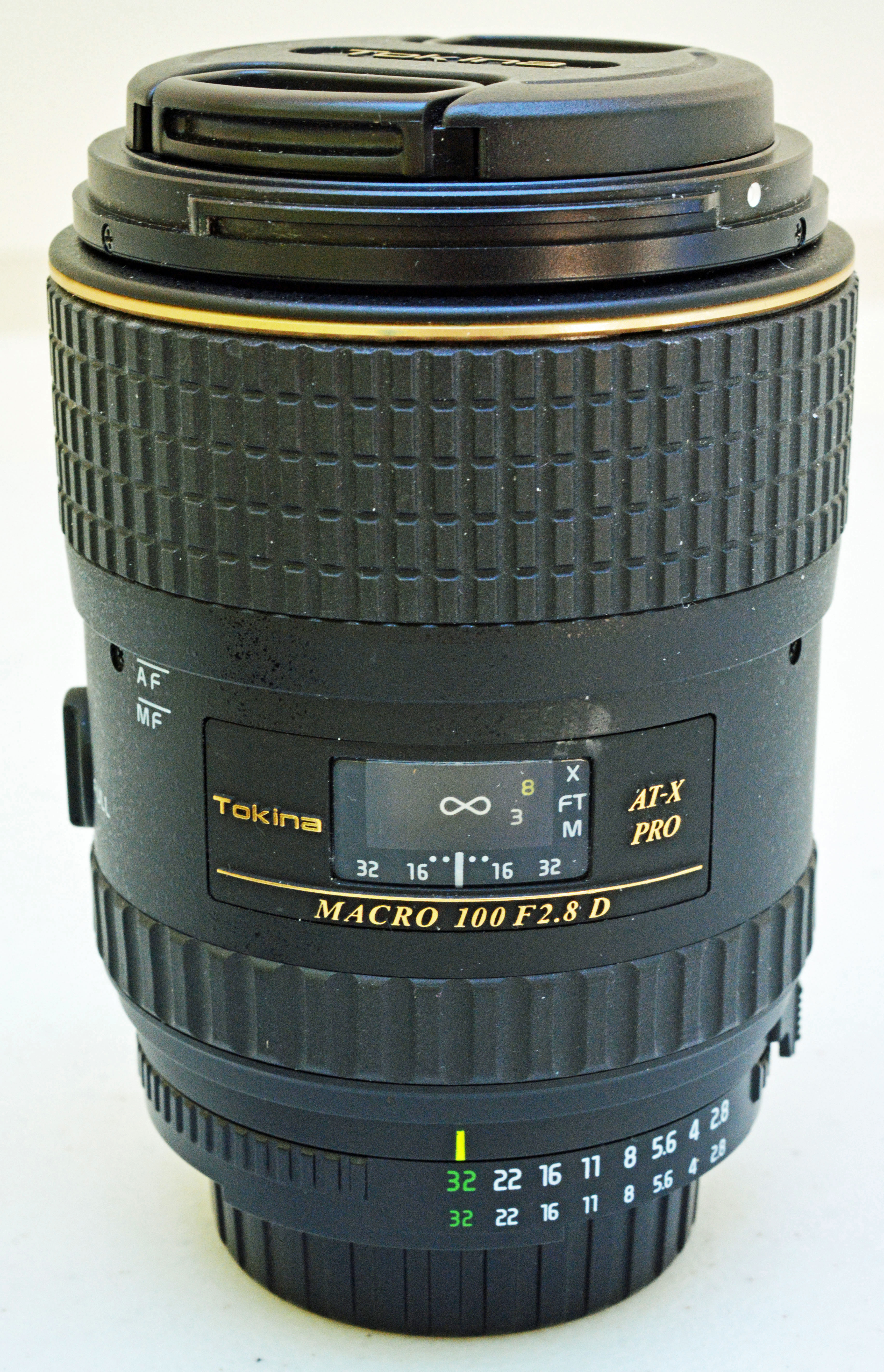 Tokina 100mm macro lens